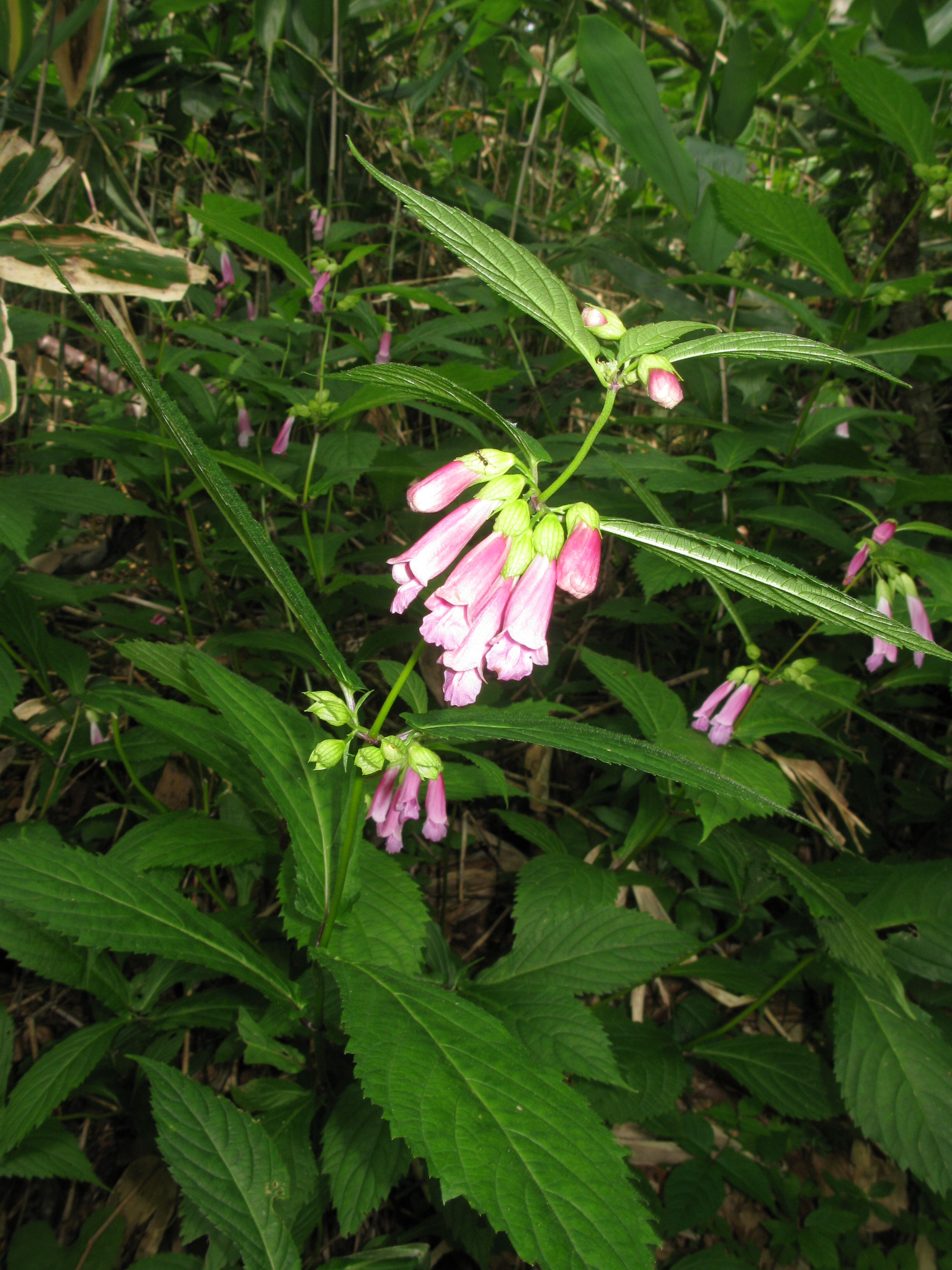 Chelonopsis moschata, Oze, Fukushima pref., Japan